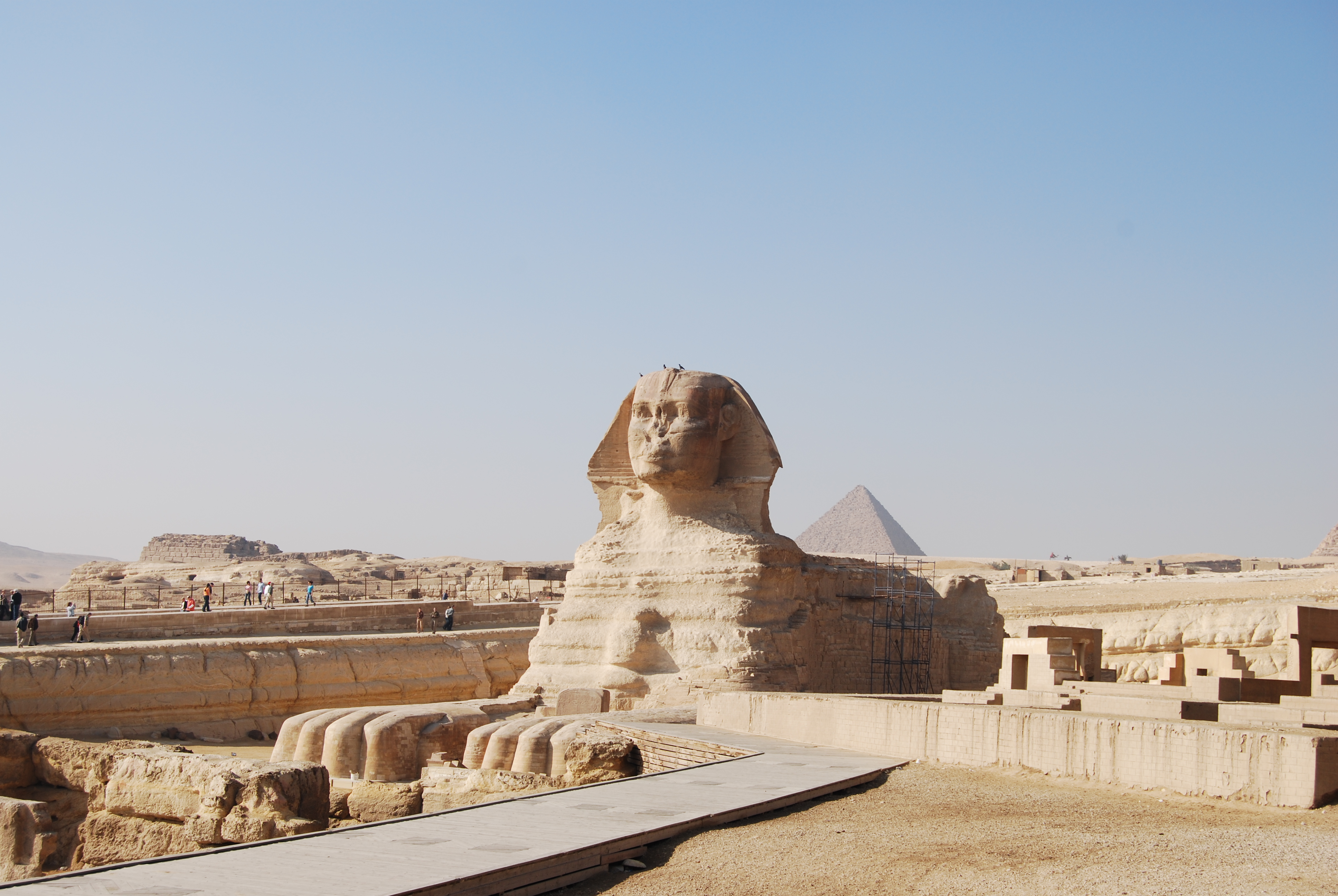 Great Sphinx of Giza